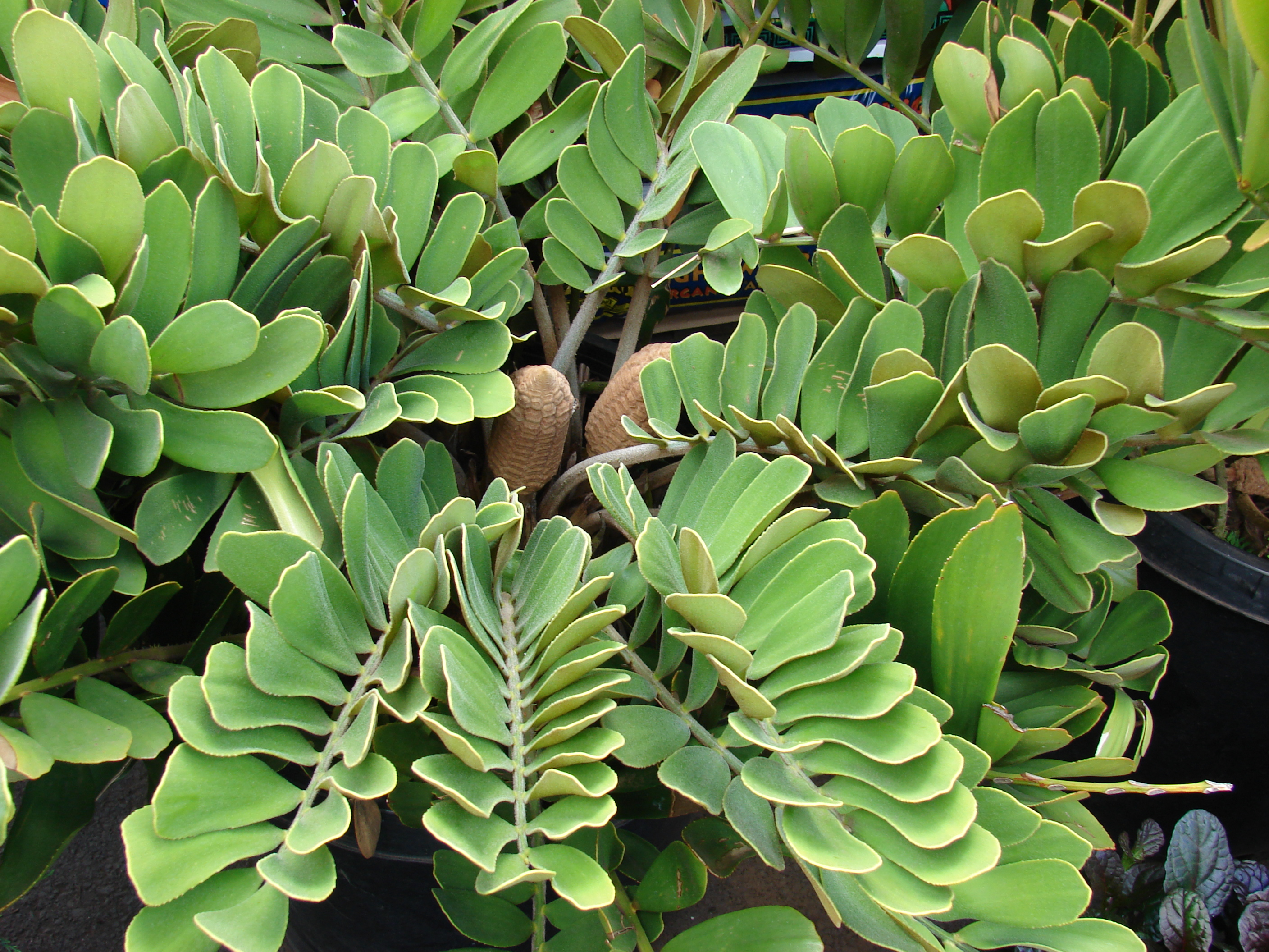 Zamia furfuracea (leaves and inflorescence). Location: Maui, Kula Ace Hardware and Nursery